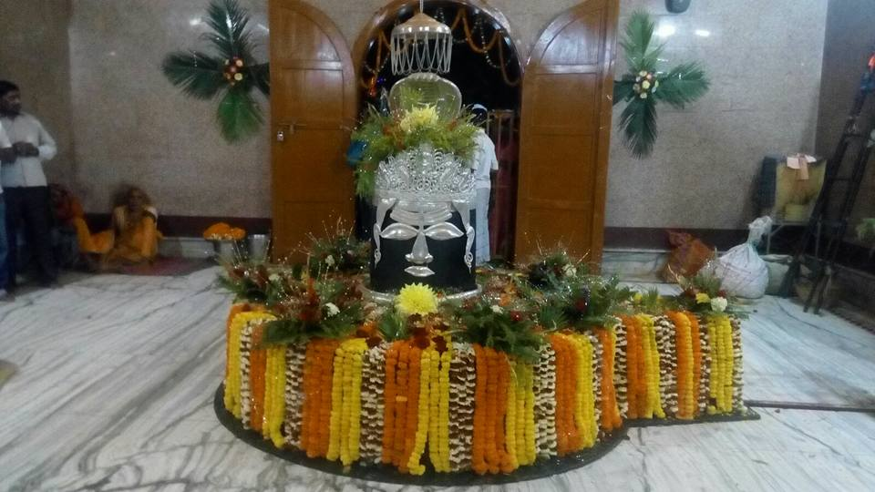 Lord Shiva photograph. Main deity of Ashokdham religious site.